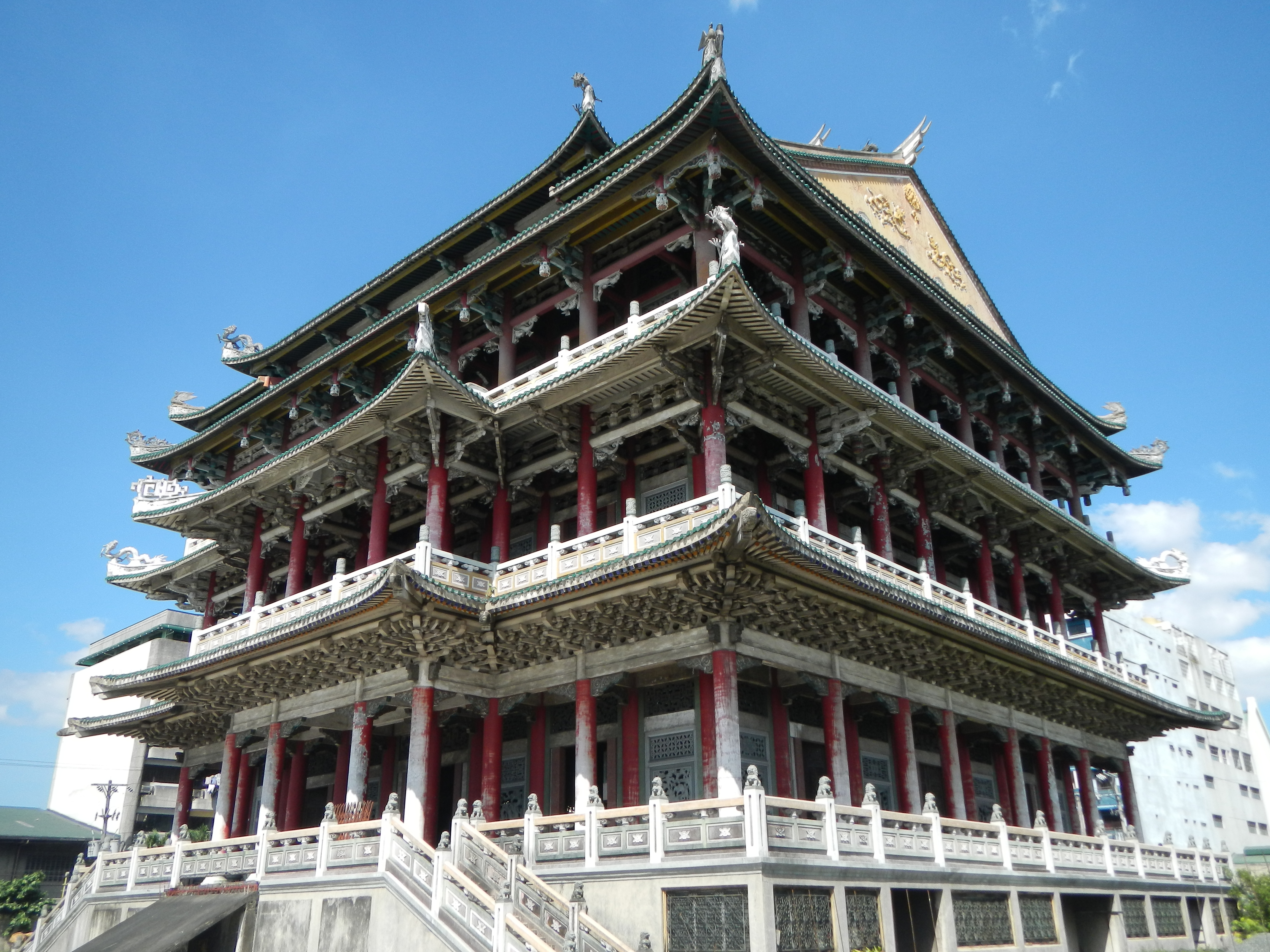 Upload Wizard photos of - a) Philippine Thai To Taoist Temple, Caloocan City [1] [2] Cor. M. H. Del Pilar and 6th Avenue East, Coordinates: 14°38'43"N 120°59'4"E[3] Latitude: 14°38'43.3" Longitude: 120°59'5.64" is part of the List of religious buildings in Metro Manila[4] Taoism [5] - at 5th Avenue LRT Station[6] A century-old Taoist temple, a landmark built by the Chinese community in 5th Avenue LRT Station, Caloocan, Manila, Philippines - with commercial buildings around thereat.[7] [8] Metro Manila[9] - - b) Footbridge along EDSA LRT Station[10], comercial buildings along Taft Avenue and Epifanio de los Santos Avenue[11] or EDSA,[12] Brgy. San Rafael, Pasay City [13].